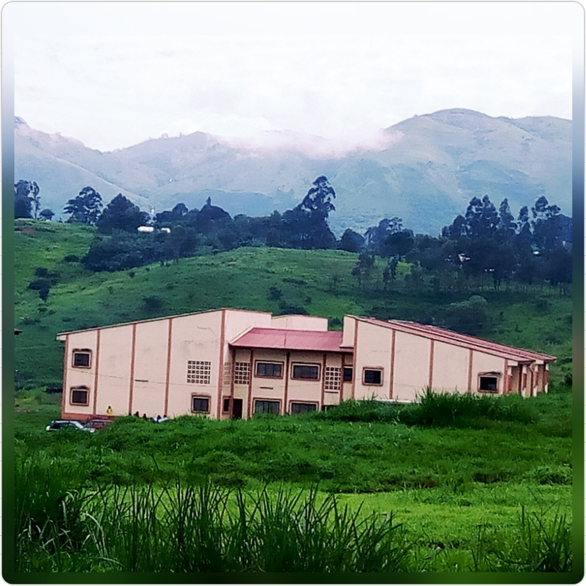 This is a photo of Bambili in the Northwest region of Cameroon. It was taken from the campus of the university of Bamenda and shows the beauty of God's creation which can only be preserved through peace and not violence.